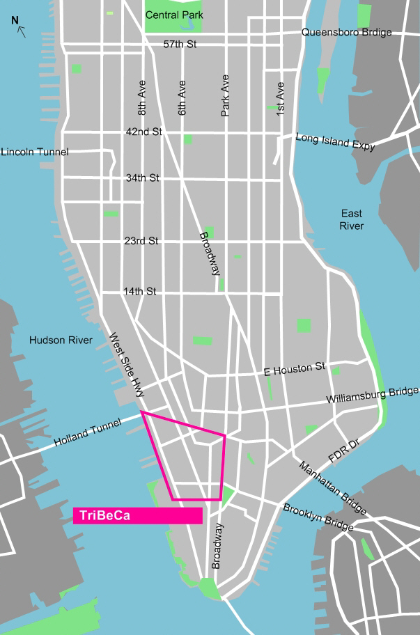 location of TriBeCa, Manhattan, New York City